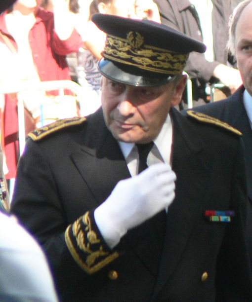 Michel Morin, prefect of the Isère département, on July 14, 2008 (shows a prefectoral uniform)